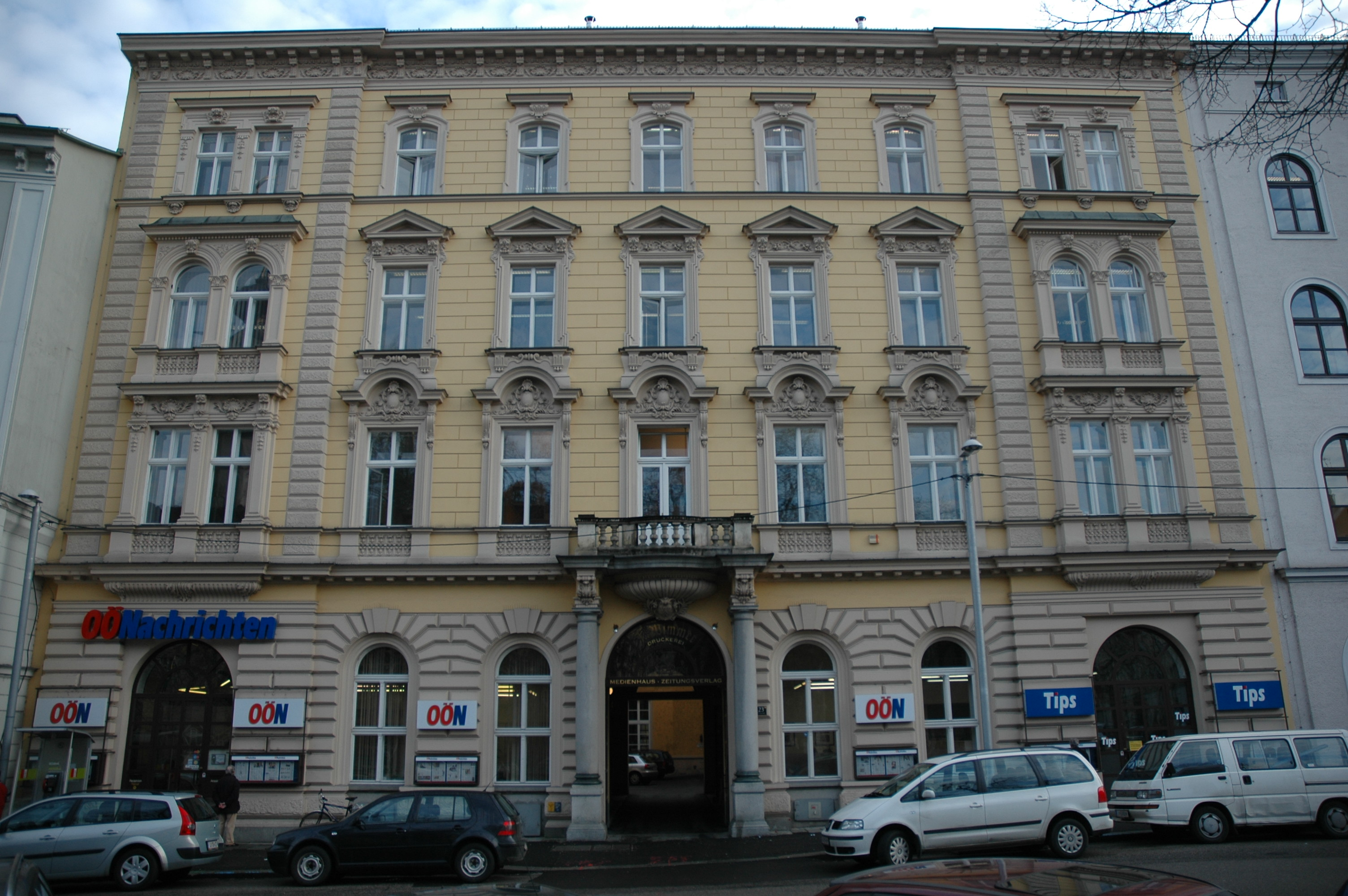 Head office (editorial building) of Oberösterreichische Nachrichten in Linz (between Taubenmarkt and Promenade)